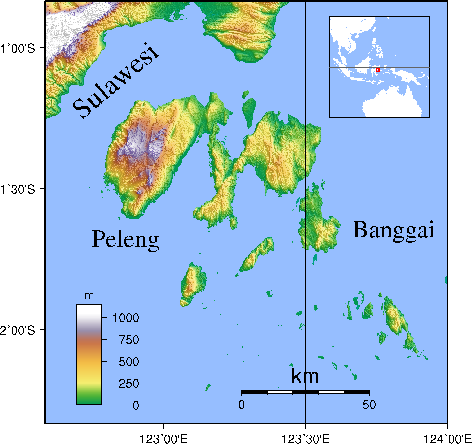 Topographic map of Banggai Islands, Indonesia. Created with GMT from SRTM data. The coastline data is pretty bad here, but since SRTM data of the region has a lot of spurious land masses, I had to use it nevertheless.